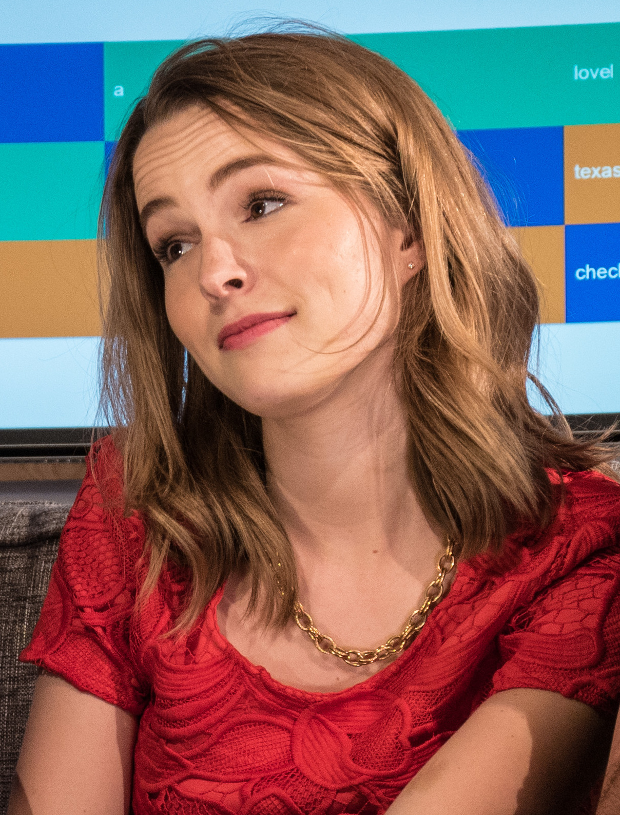 Brent Morin, Bill Lawrence, Bridgit Mendler, Rick Glassman from NBC Undateable at SXSW 2015